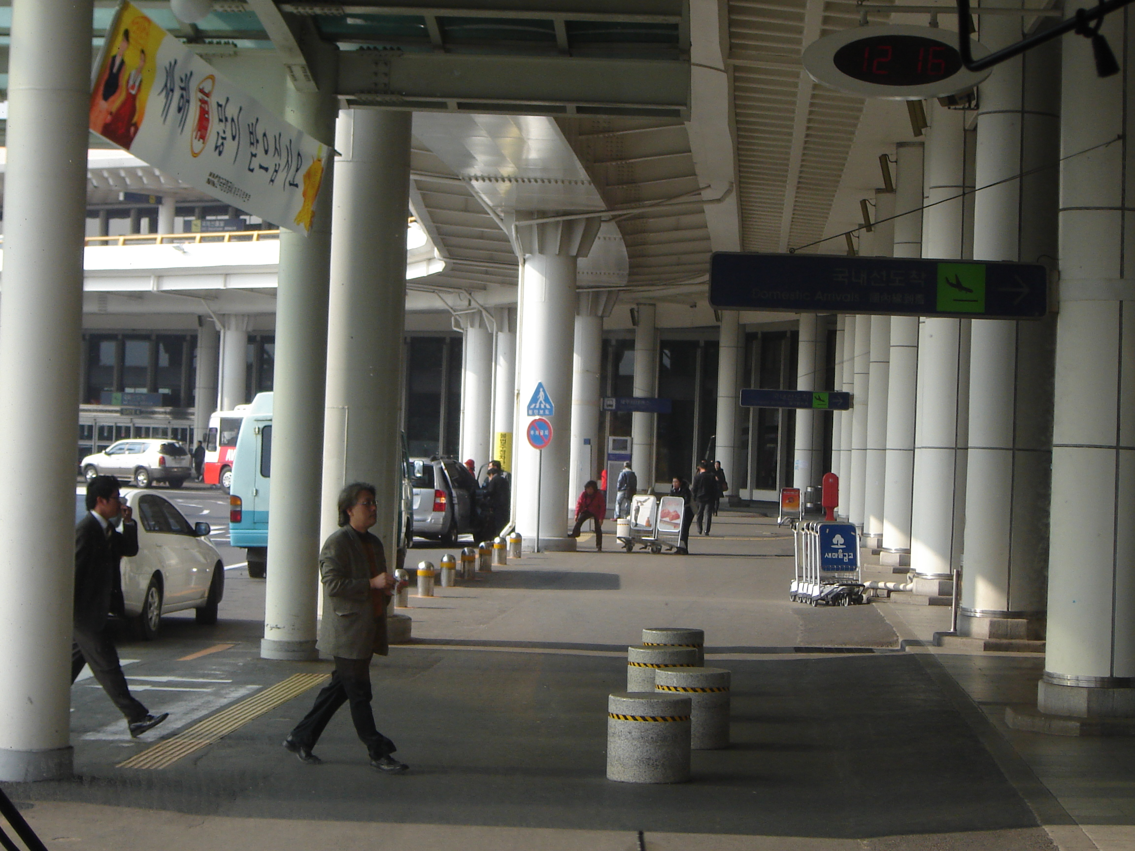 Jeju International Airport